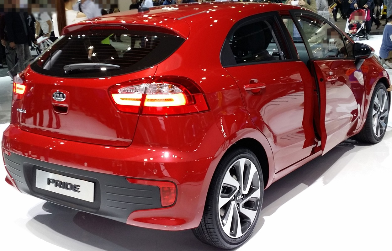 Kia The New Pride